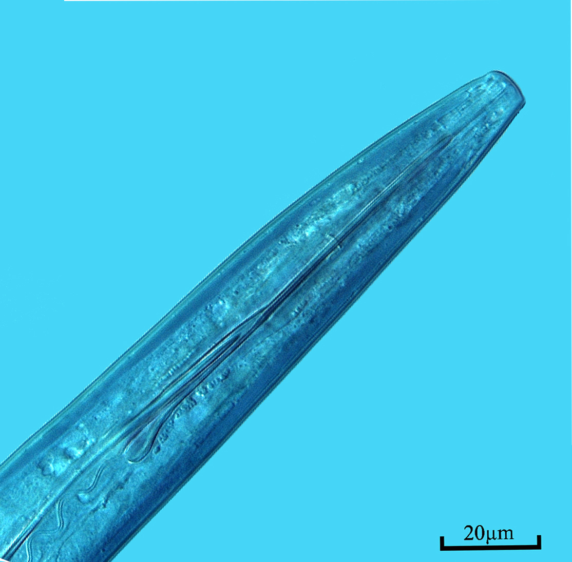 Xiphinema sp. Juvenile (J1). Anterior Región. 1000X